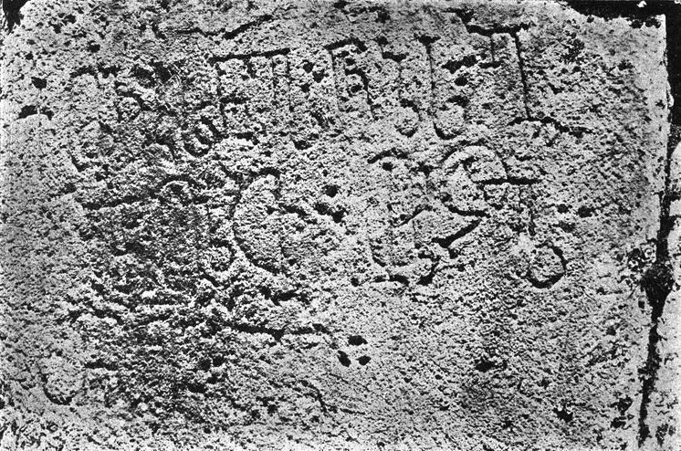 A medieval inscription from the Shoreti monastery in Georgia, mentioning the chief mason Nicholas. Photographed in 1902 (Taqaishvili, 1909).